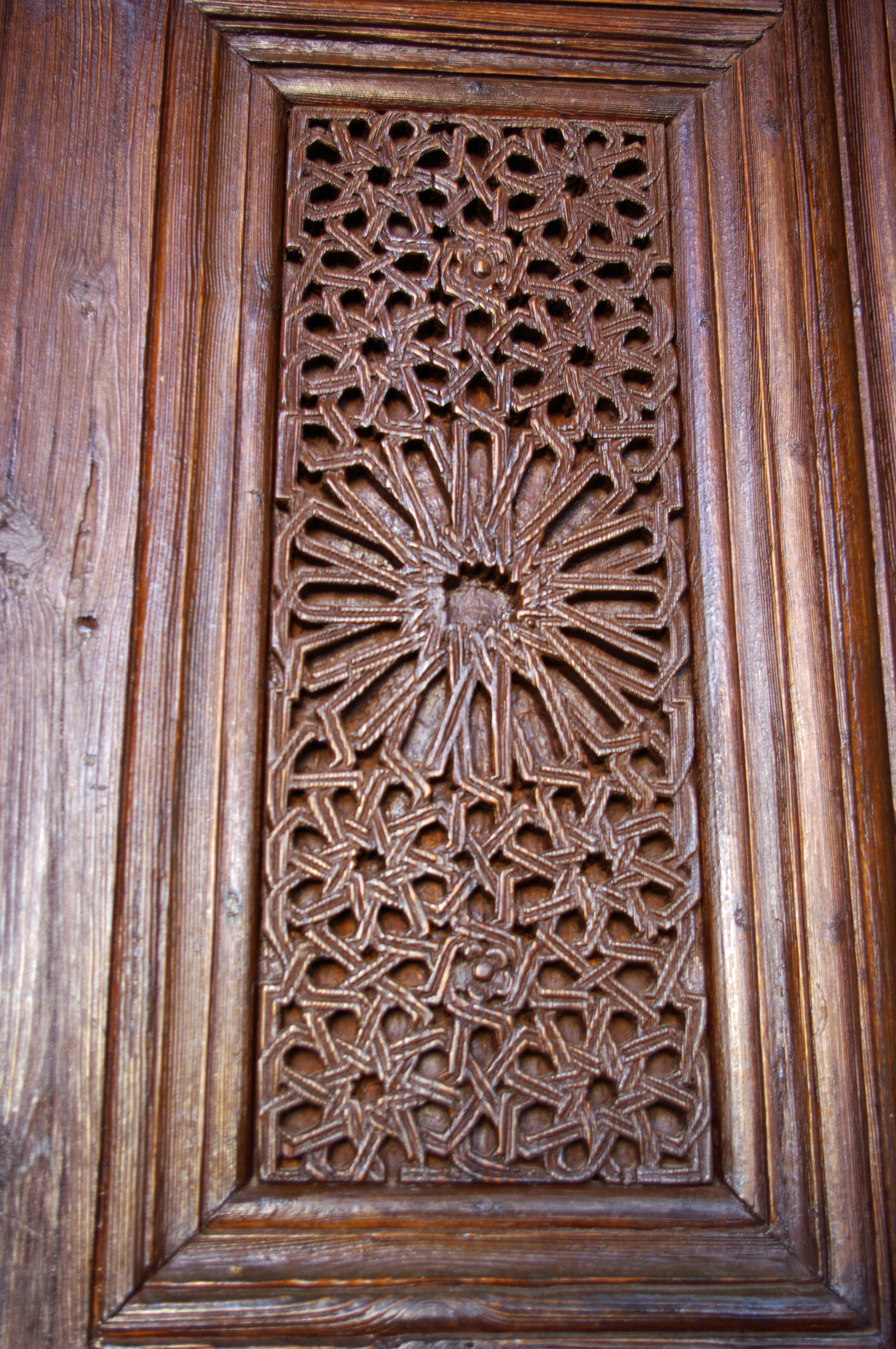 Carved Door Panel Grand Mosque Kairouan Tunisia 23-11-2011